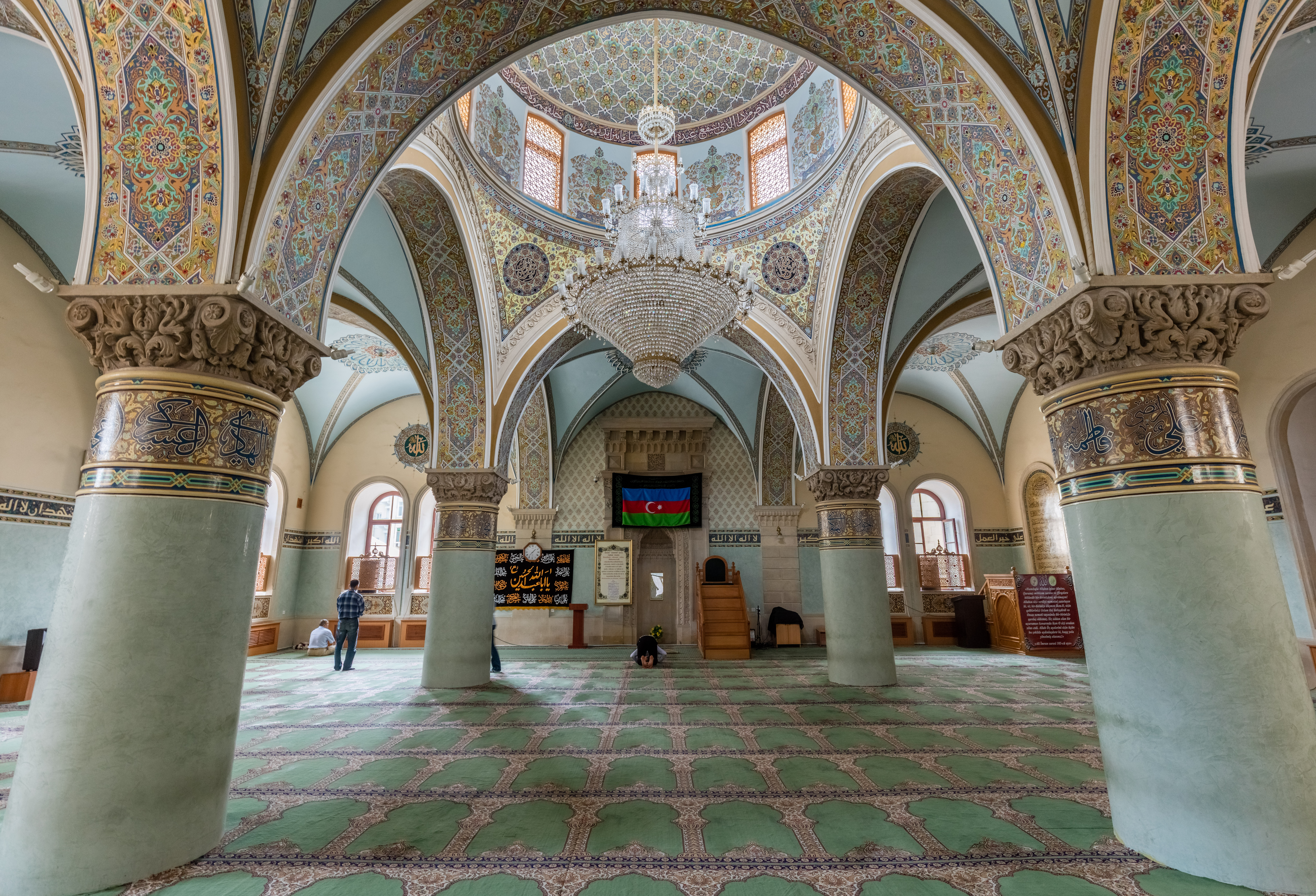 Friday Mosque, Baku, Azerbaijan